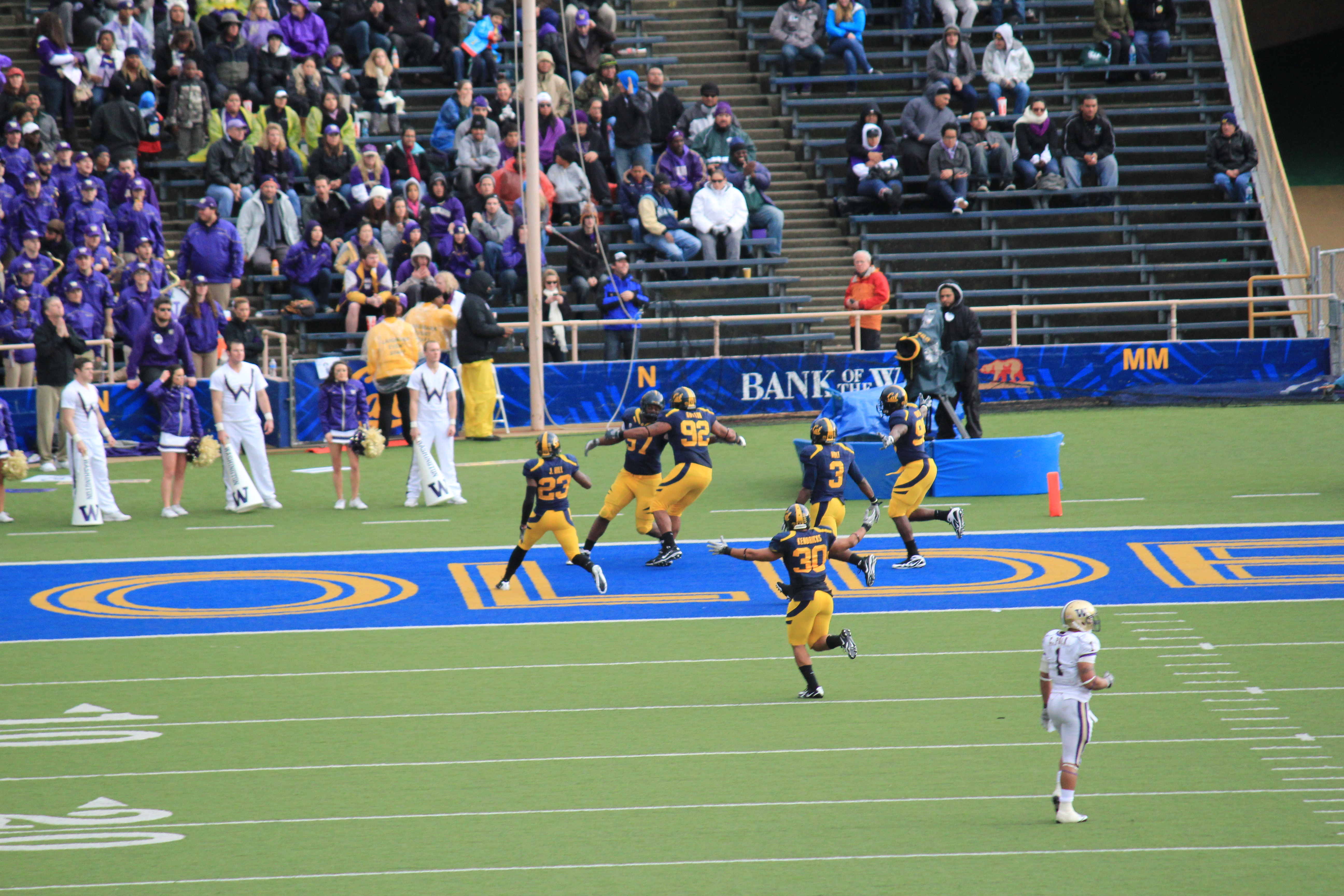 Cal defensive lineman Cameron Jordan scores a touchdown during a home game at Memorial Stadium against Washington. The Huskies won 16-13.